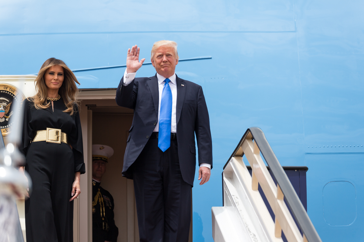 Melania Trump and Donald Trump at King Khalid International Airport in Riyadh, Saudi Arabia. They are just getting out of the plane.